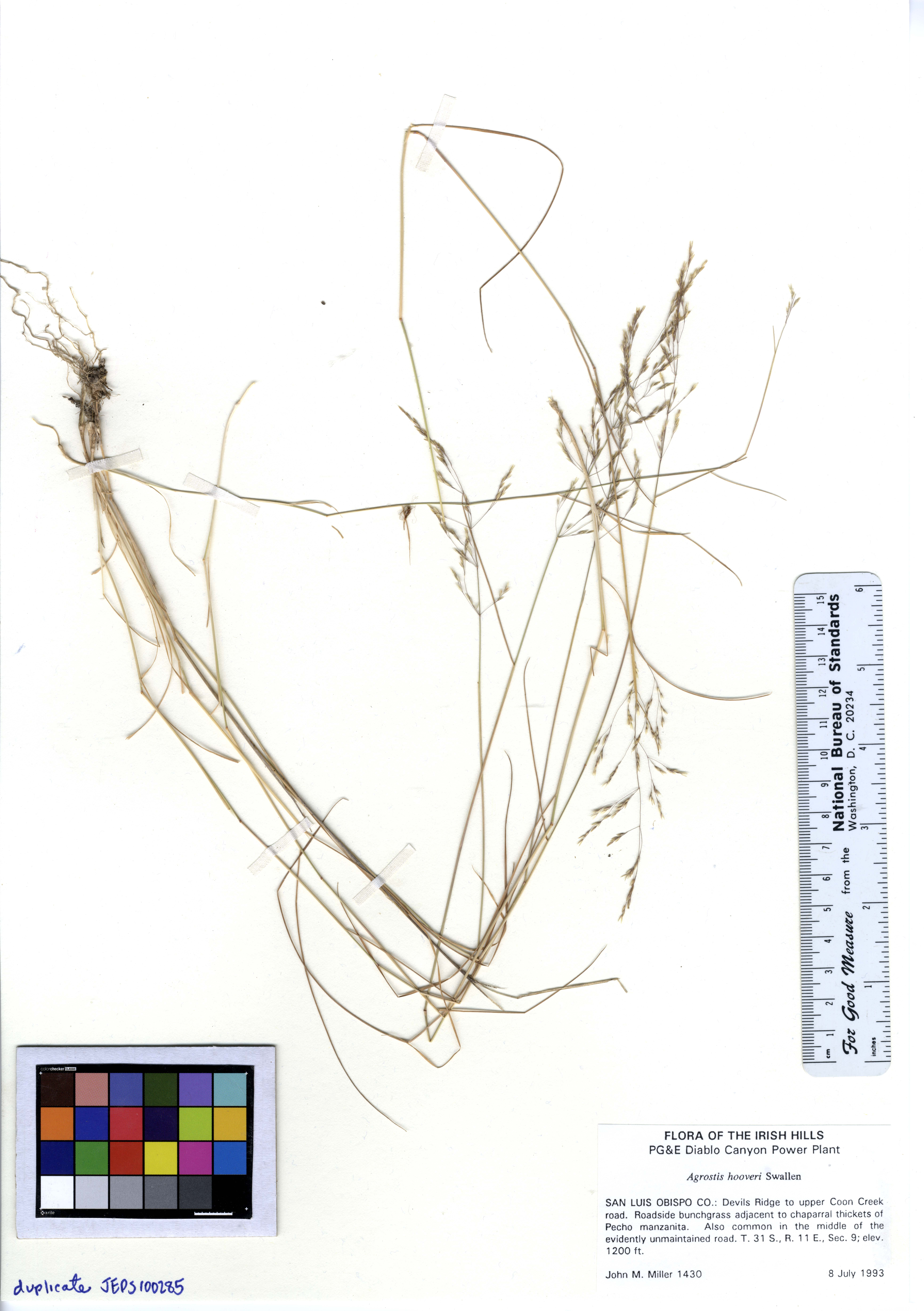 Agrostis hooveri dupl. of JEPS100285